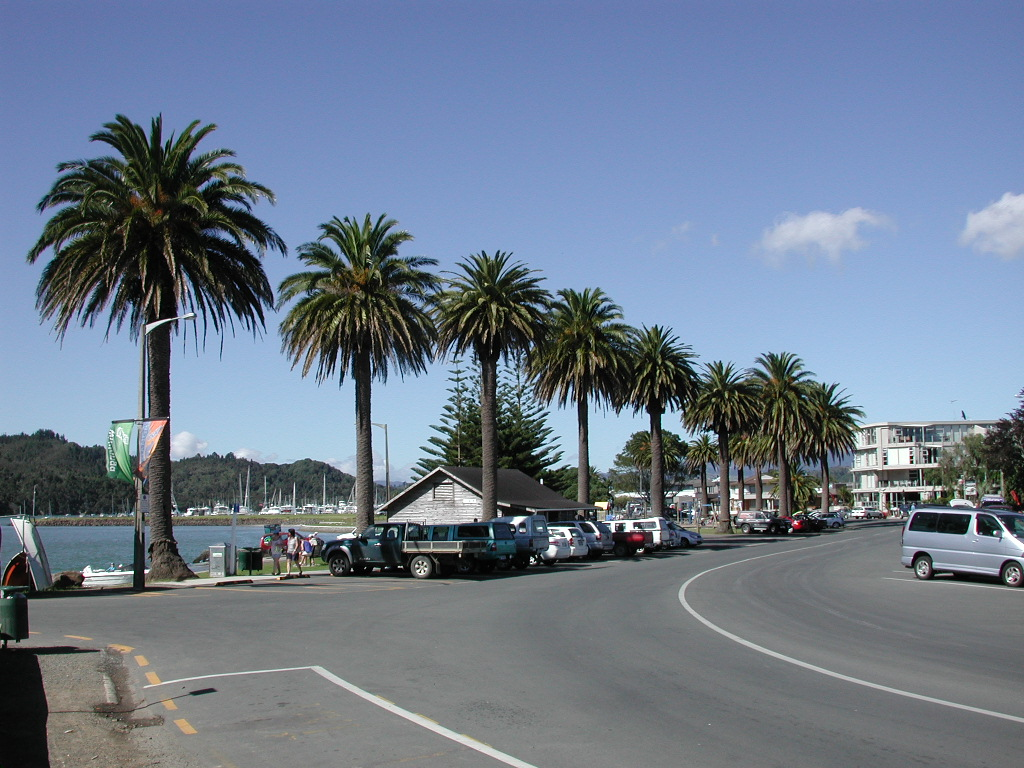 Palm trees Phoenix canariensis on Whitianga waterfront, North Island, New Zealand, near the marina